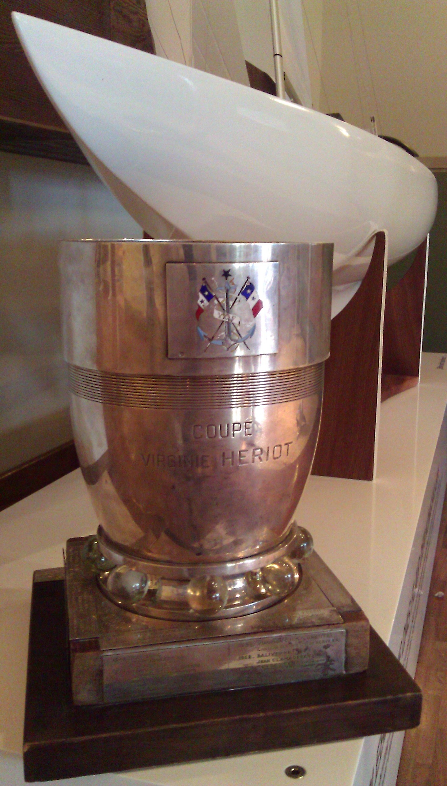 Picture of the Coupe Virginie Heriot. Made during the European Championship Dragon 2011 at Boltenhagen Germany.